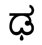 dhakaravu